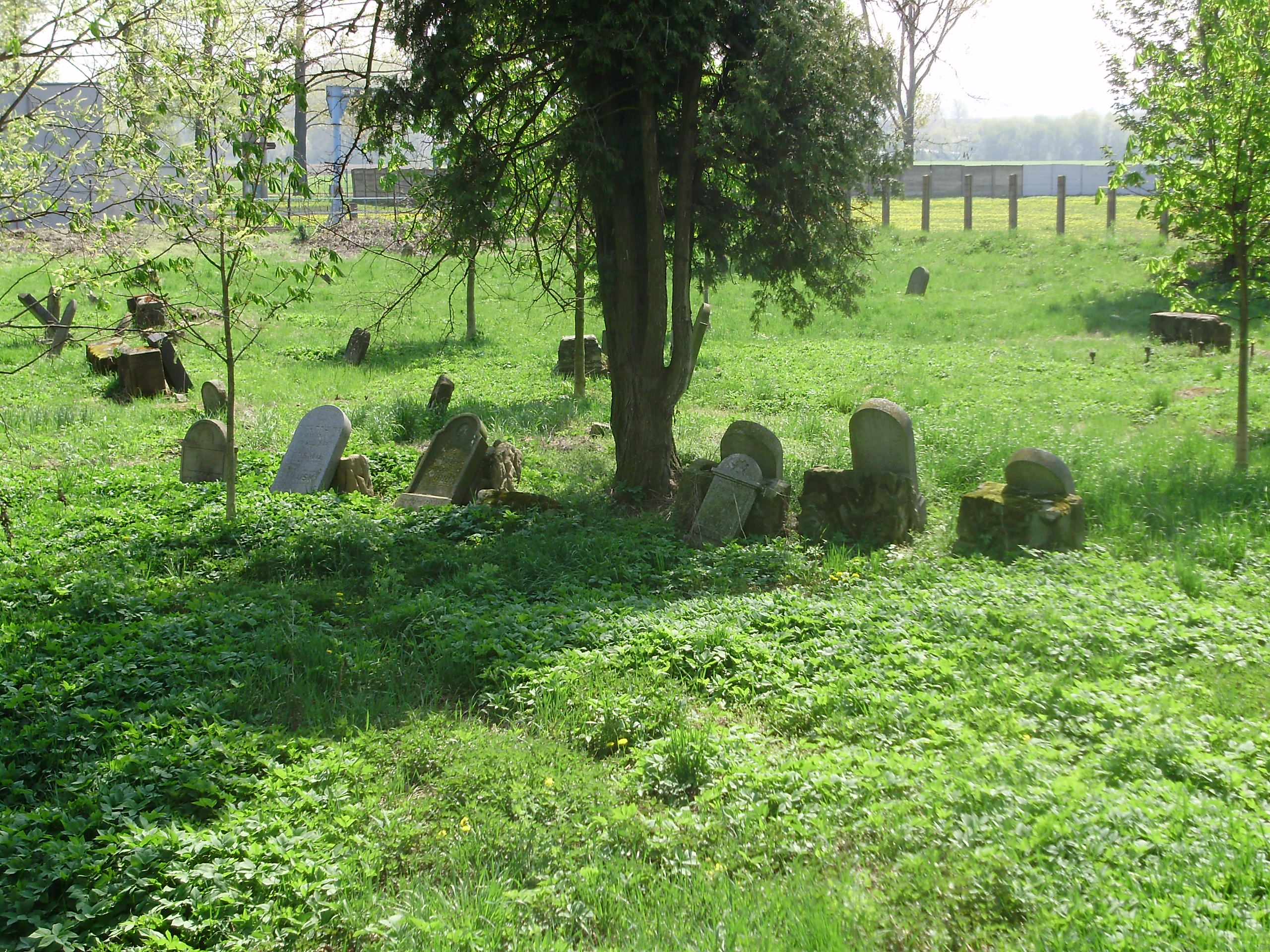 Jewish cemetery in Ivanovice na Hané